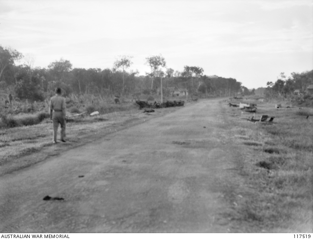 MUAR AREA, JOHORE, MALAYA. 1945-09-26. THE WRECKAGE OF AN AUSTRALIAN CONVOY LITTERING BOTH SIDES OF THE ROAD AT PARIT SULONG WHERE IT WAS DESTROYED DURING AN ENEMY AMBUSH. ON THE LEFT CAN BE SEEN SOME OF THE GEAR OF SOME 150 WOUNDED AUSTRALIAN AND INDIAN TROOPS WHO WERE MASSACRED BY THE ENEMY.